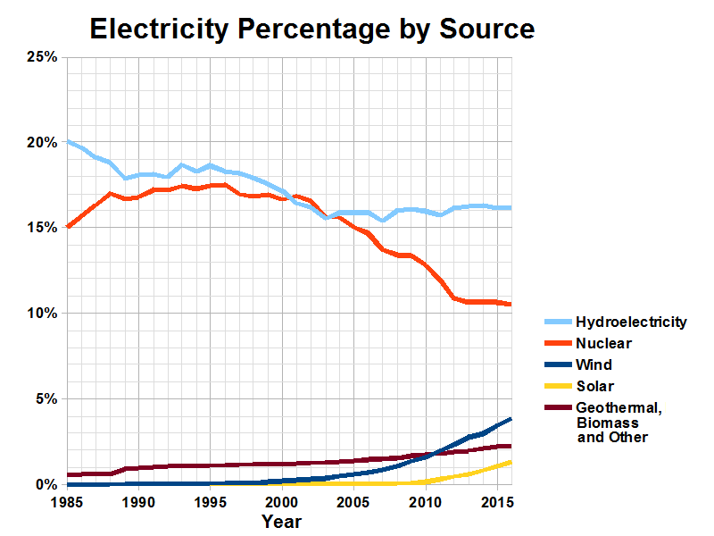 Electricity percentage worldwide by source. By 2015, solar power accounted for 1.05% of electricity, and wind power 3.49%. Hydroelectricity accounted for 16.38%, and nuclear power 10.69%. 66.24% is from fossil fuels, mostly coal and natural gas. This file may be updated annually. Source:BP Statistical Review of World Energy